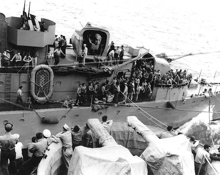 The U.S. Navy destroyer USS Shaw (DD-373) transferring survivors of USS Porter (DD-356) between Shaw and the battleship USS South Dakota (BB-57) on 28 October 1942. Porter had been torpedoed and sunk two days earlier, during the Battle of the Santa Cruz Islands. Photographed from on board the South Dakota, one of whose 40 mm quad gun mounts, covered with canvas, is in the foreground.